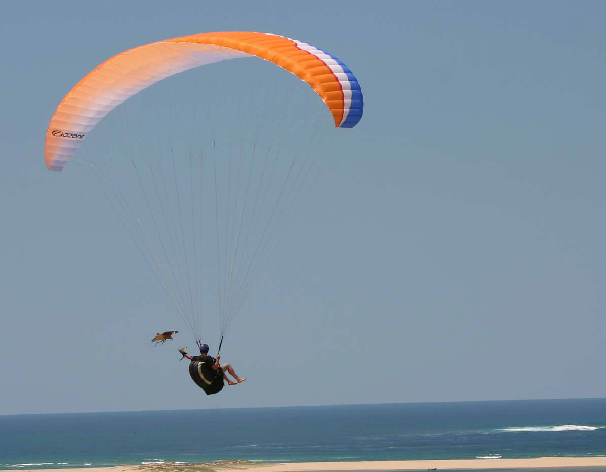 a red kite is going to land on the paragliders fist